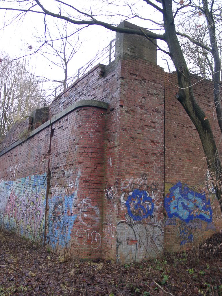 fragment of the planned underground station Beimoor; Großhansdorf